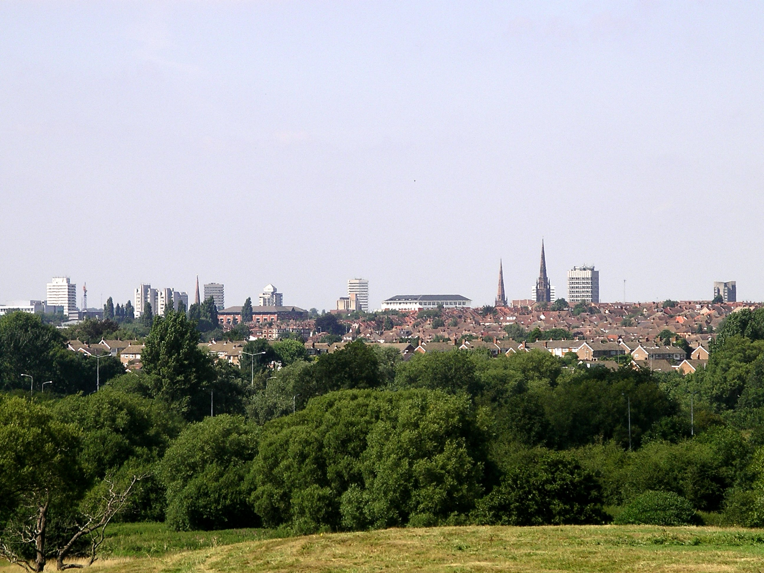 Photo taken on 3 Aug 2006 of Coventry City from Baginton about 3 miles away from the Coventy City centre. It shows spires of Coventry. Camera set to 5x zoom magnification for the photo. As well as the old spires the spire of the new cathedral can be seen on the horizon on the right of the picture when the image is viewed full size.